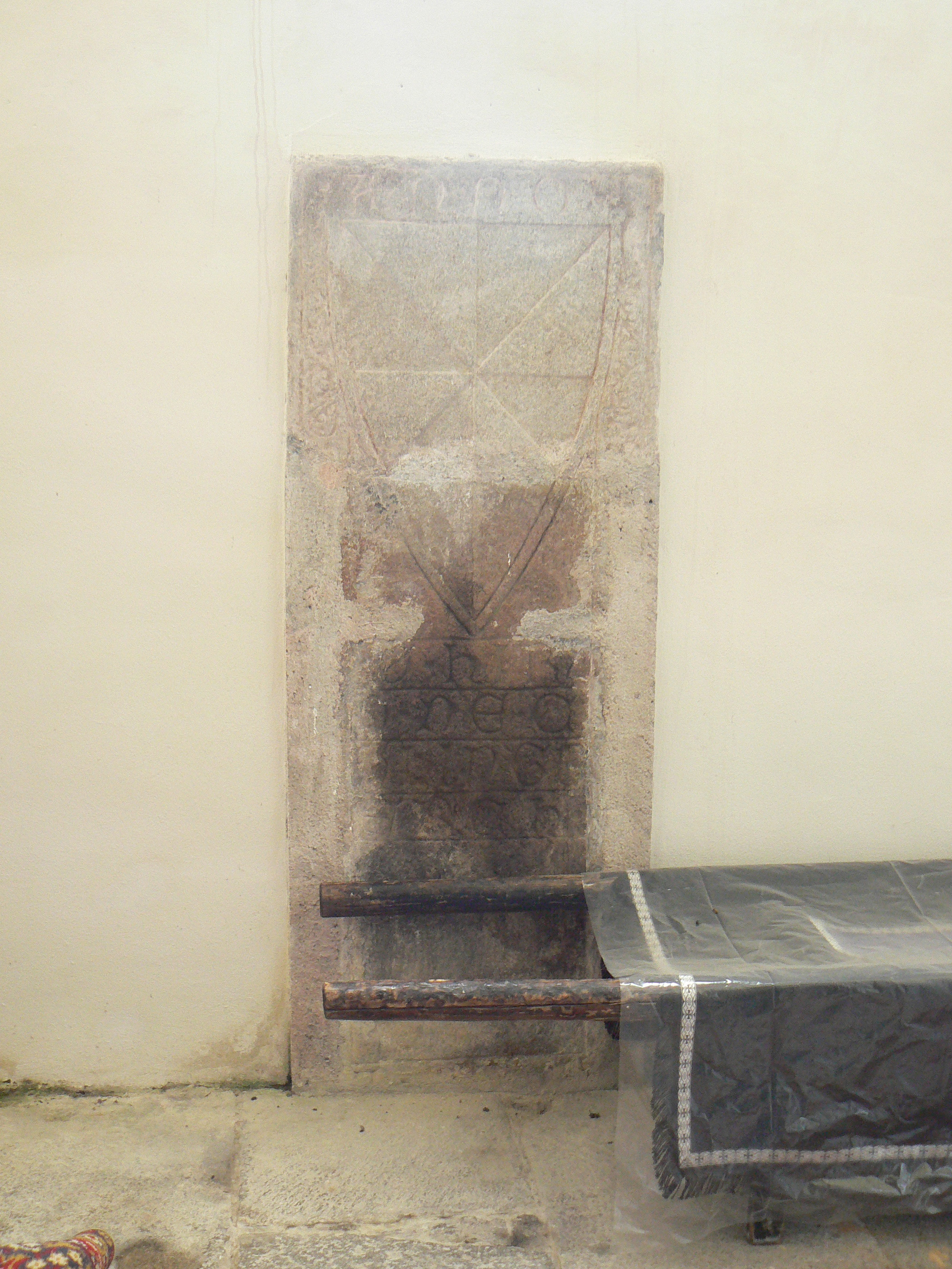 Hirzo of Klinkenberg